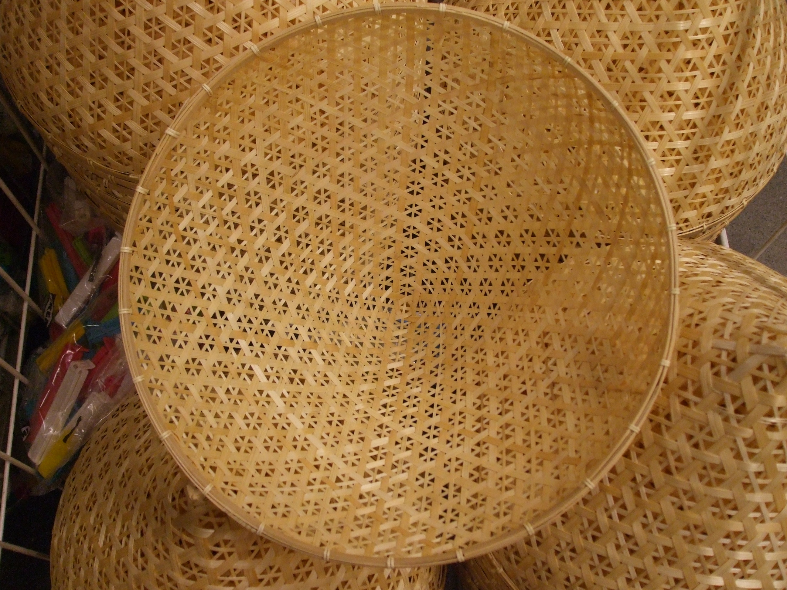 ricehat